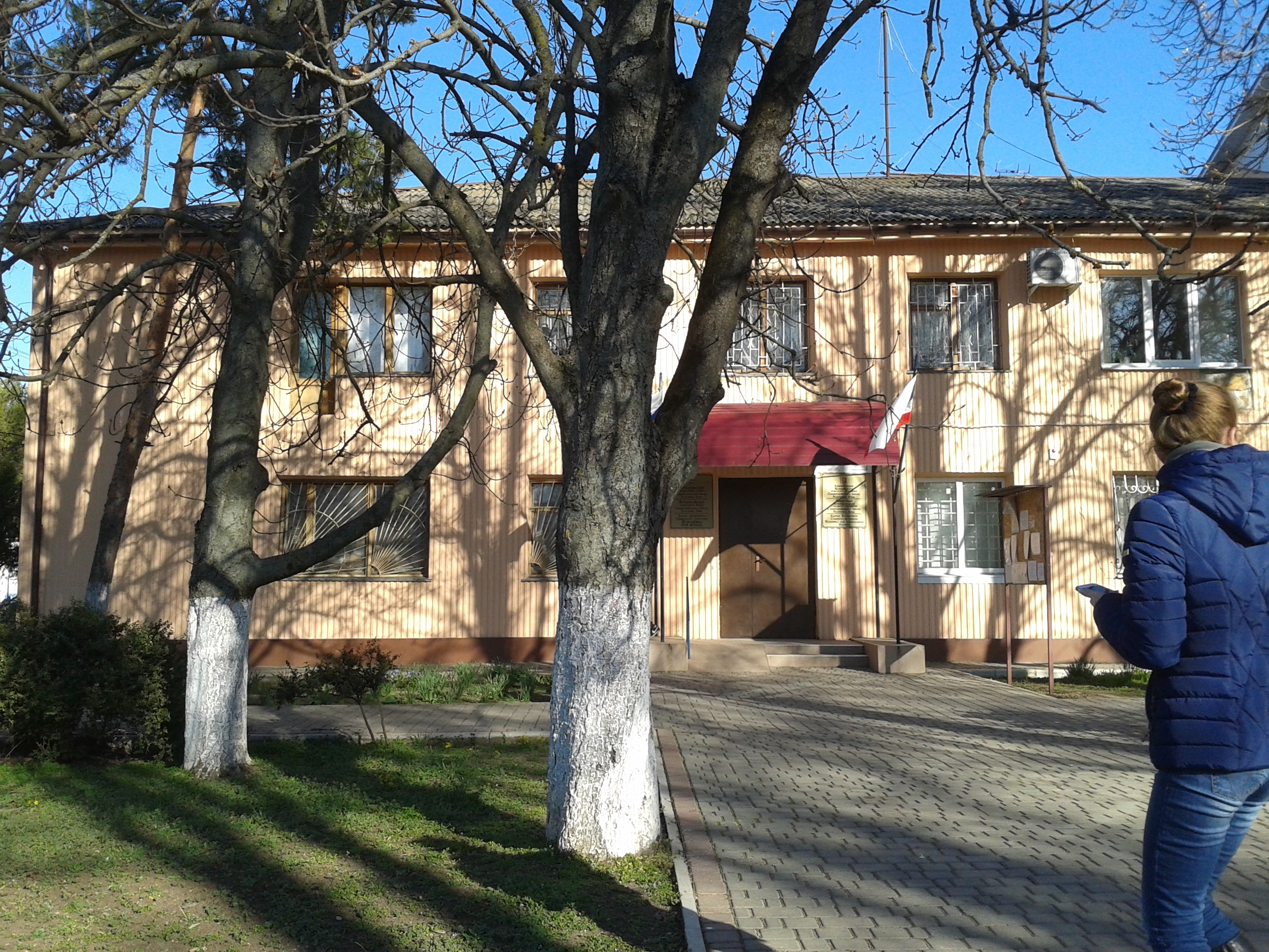 Village Zhuravlyovka, Simferopol district, Crimea.